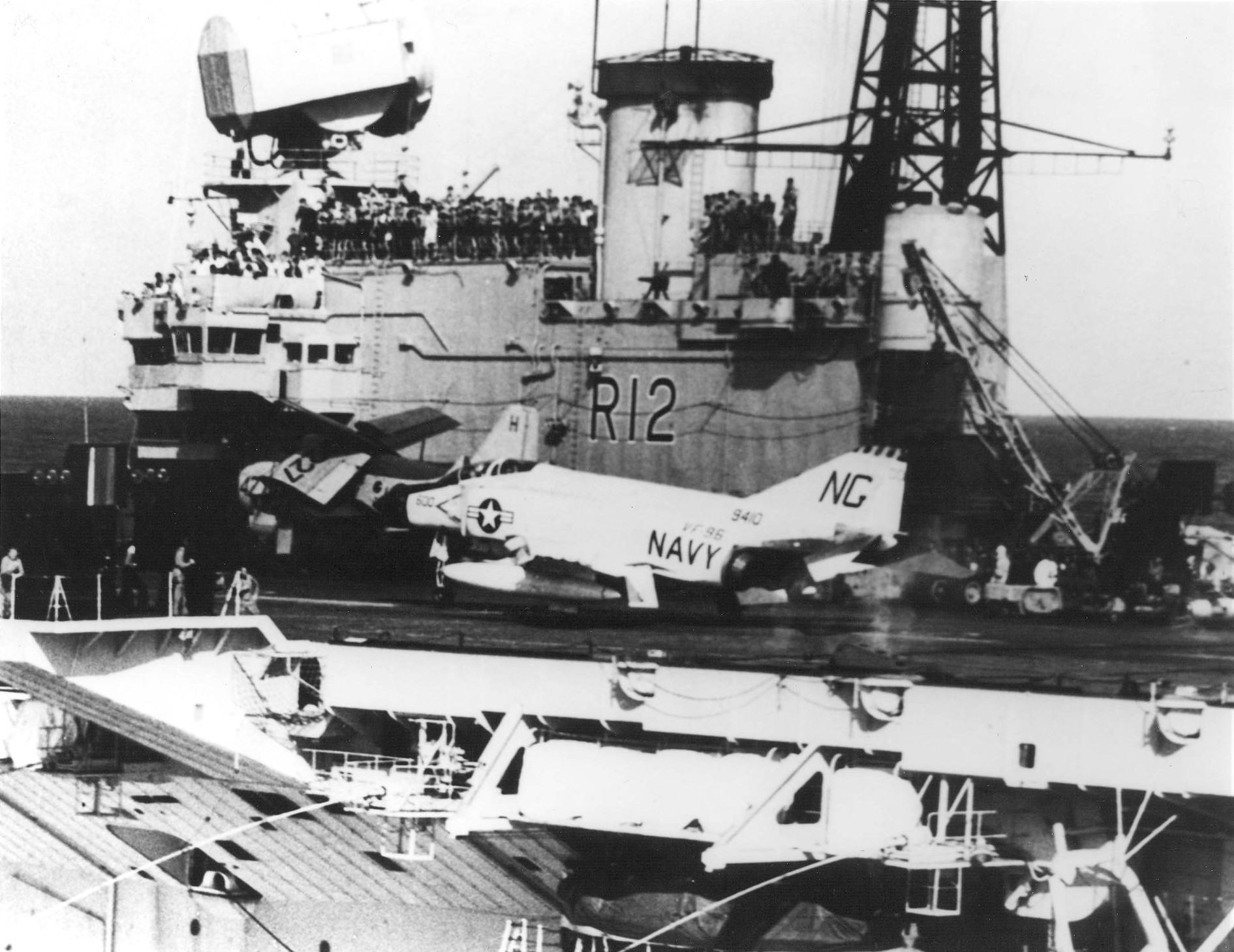 A U.S. Navy McDonnell F-4B-9-MC Phantom II (BuNo 149410) of Fighter Squadron 96 (VF-96) "Fighting Falcons" aboard the Royal Navy aircraft carrier HMS Hermes (R12) on 17 January 1963. VF-96 was assigned to Carrier Air Group 9 (CVG-9) aboard the aircraft carrier USS Ranger (CVA-61) to the Western Pacific from 9 November 1962 to 14 June 1963. Note the Fairey Gannet AEW.3 of B Flight, 849 Naval Air Squadron parked next to the island.